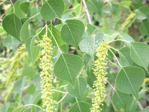 Chinese tallow leaves and blossom buds, in Moncks Corner, South Carolina.